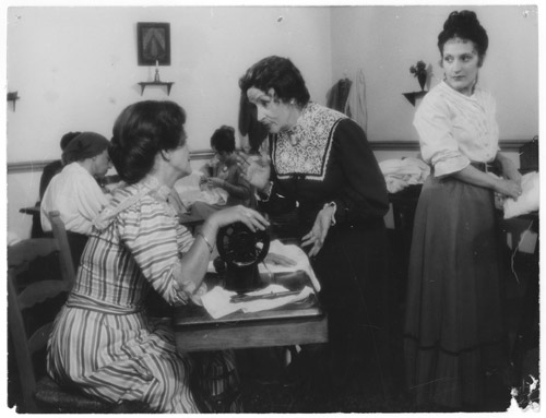 Patricia Castell (sentada), Tita Merello y Tina Serrano, en la película La Madre María (1974).